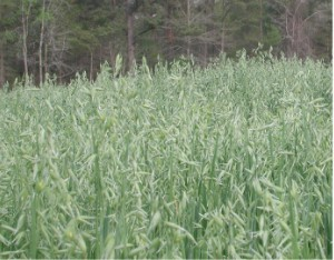 Oat field in south California US